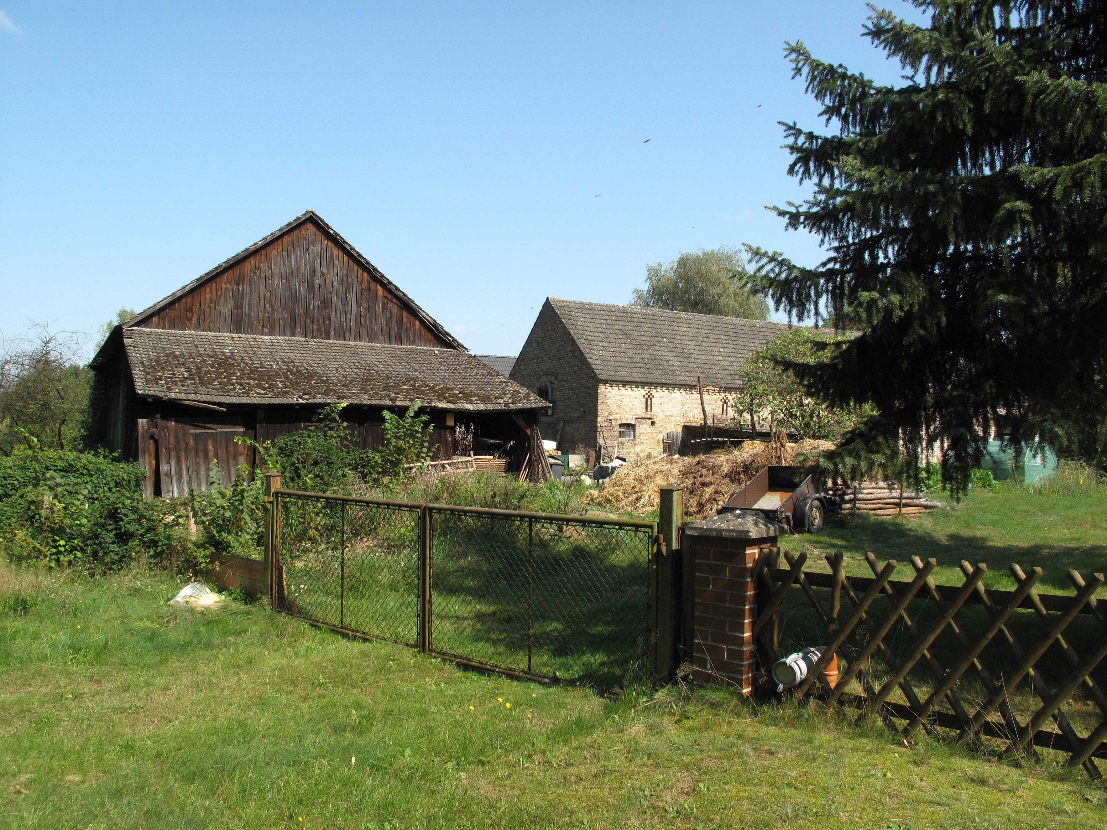 Farmhouse in Schwenow. Schwenow is a village in the District Oder-Spree, Brandenburg, Germany. Schwenow belongs to Limsdorf, a part (german: Ortsteil) of the town Storkow.